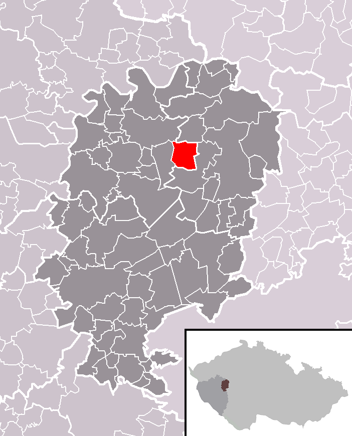 Location of Sebečice municipality within Rokycany District and within identical administrative area of Rokycany as a Municipality with Extended Competence.